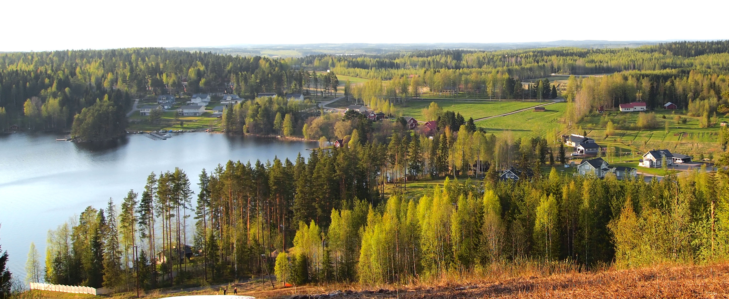 View in Savivuori in Viitasaari.